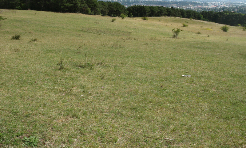 Habitate of Spermophilus citellus in Perchtoldsdorf, Lower Austria